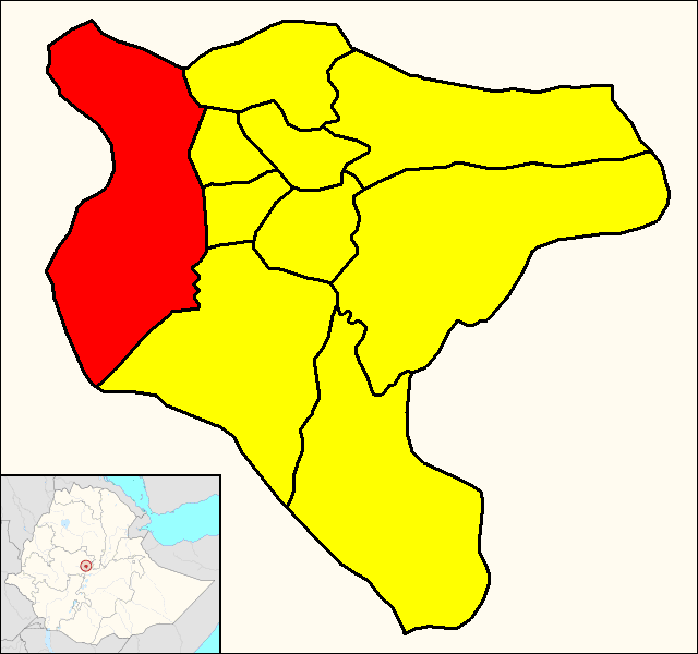 Map of the district (subcity) of Kolfe Keranio (shown in red) within the city of Addis Ababa (yellow).